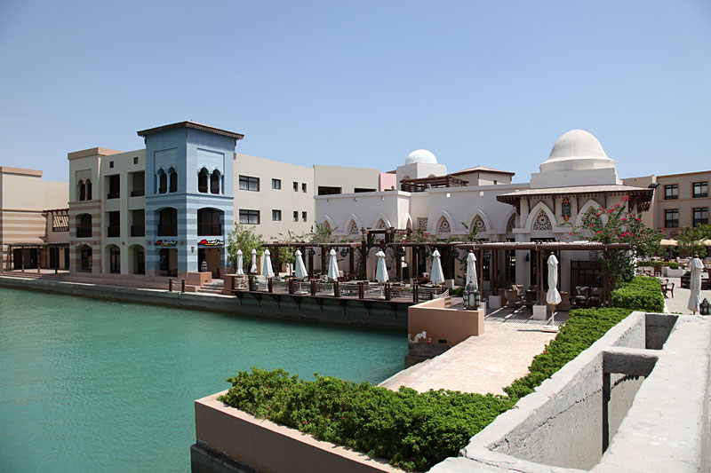 Grand Café in Port Ghalib